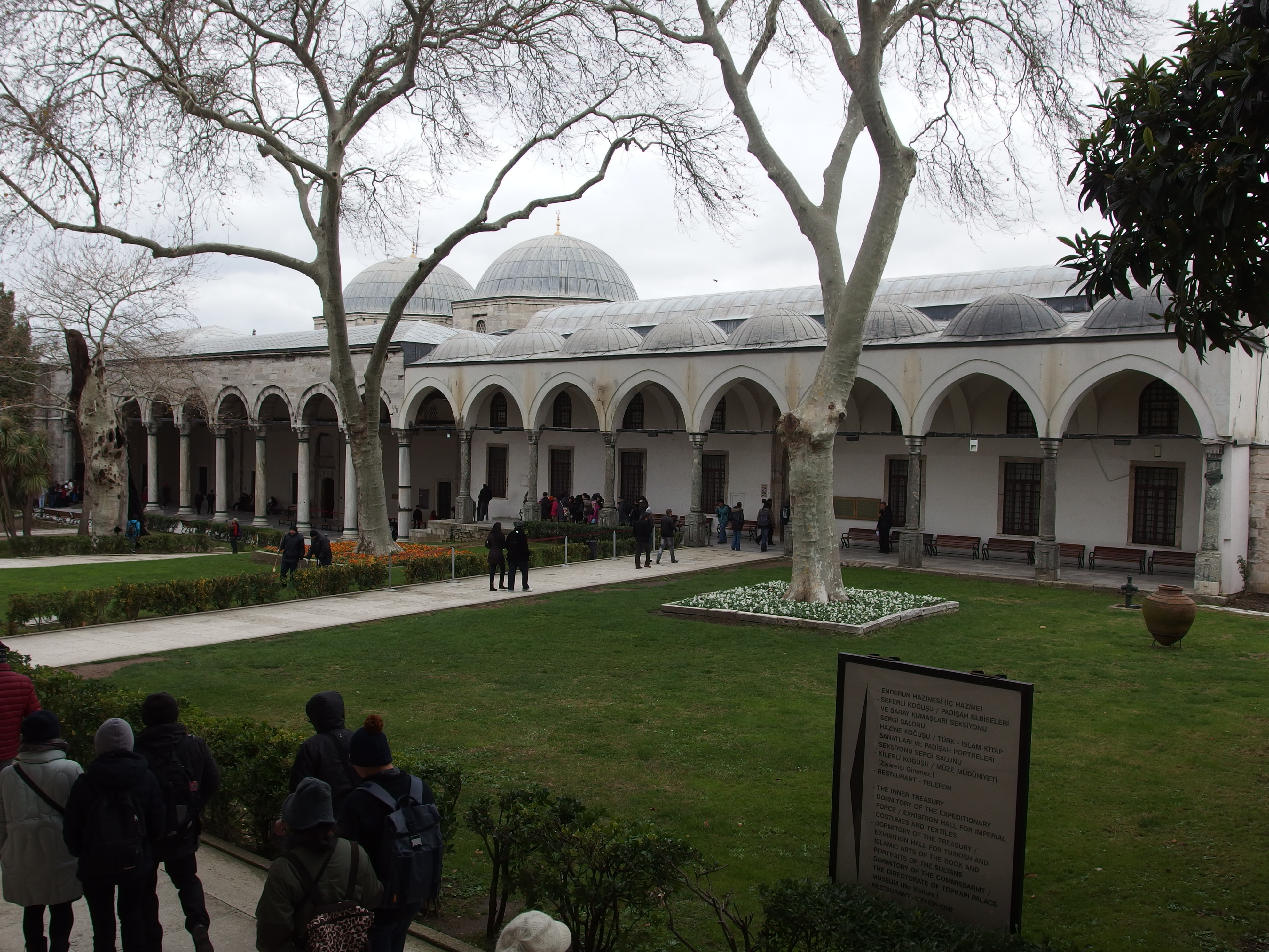 2013-12-04 in Istanbul.